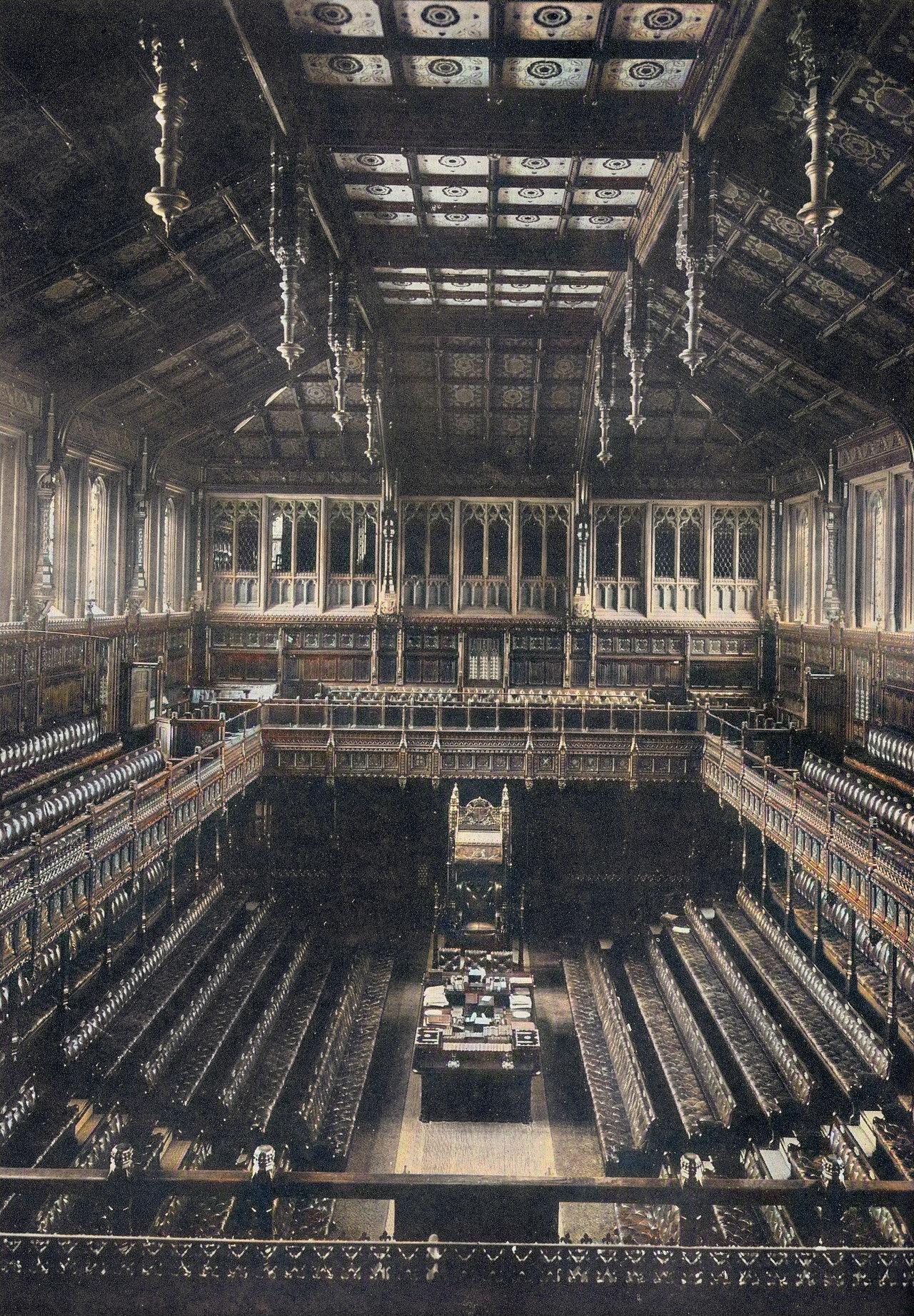 A picture of the British House of Commons chamber at the Palace of Westminster, prior to its destruction during the Second World War.